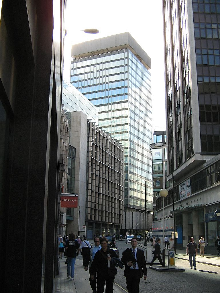 Fenchurch Street in the City of London, looking west.